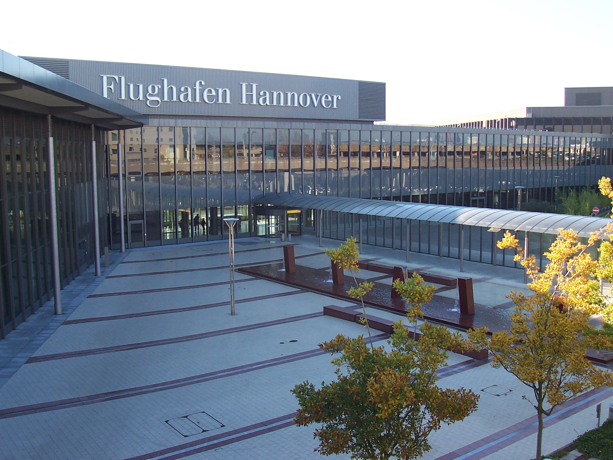 Hannover International Airport. Connecting passage between Terminals B and C.